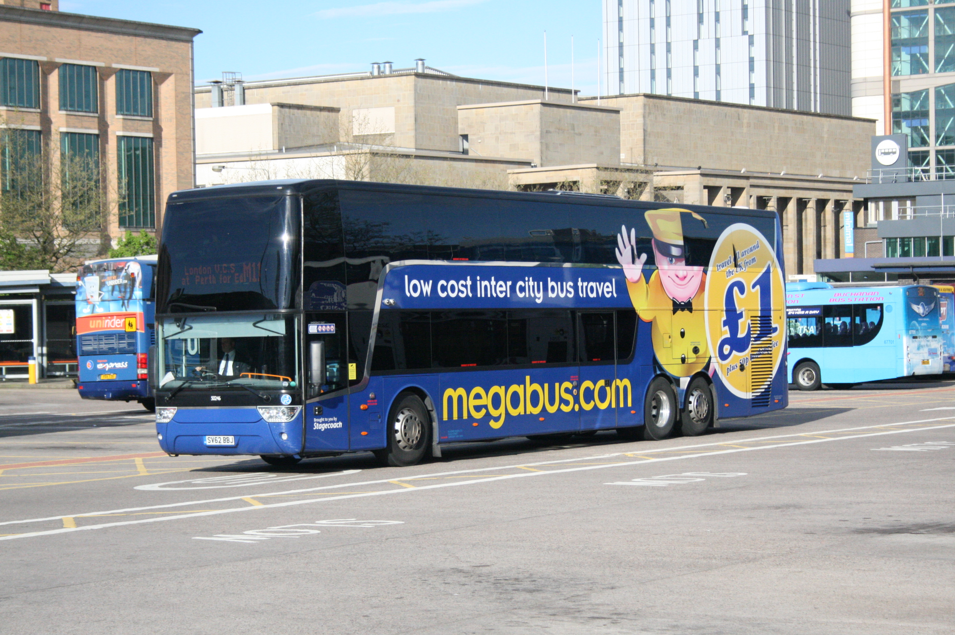 SV62 BBJ, a Van Hool TDX27 Astromega, rolls through to stance 11 at Buchanan bus station to pick up passengers for the M11 to London Victoria coach station.